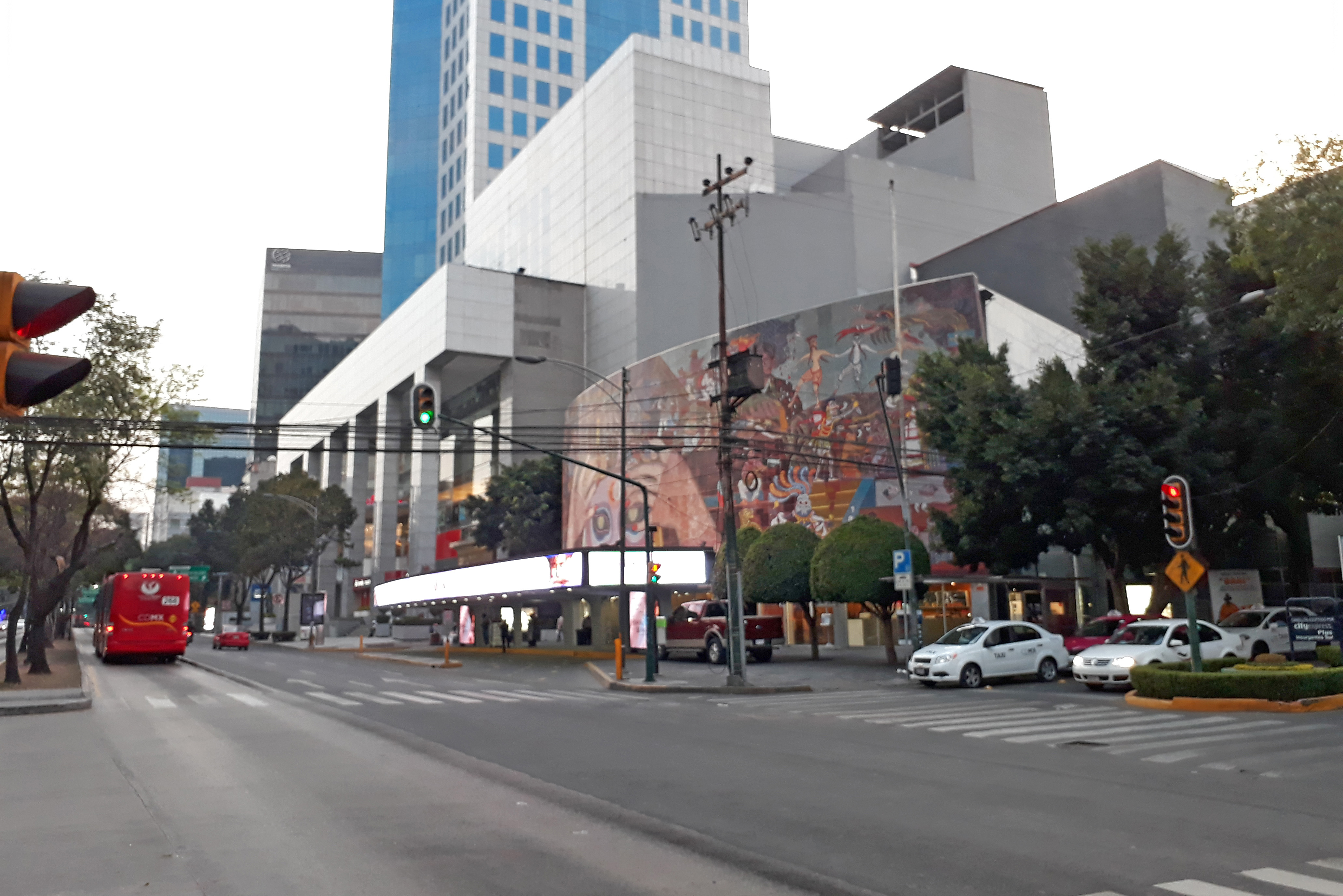 Insurgentes' theater in Insurgentes Avenue, in southern Mexico City